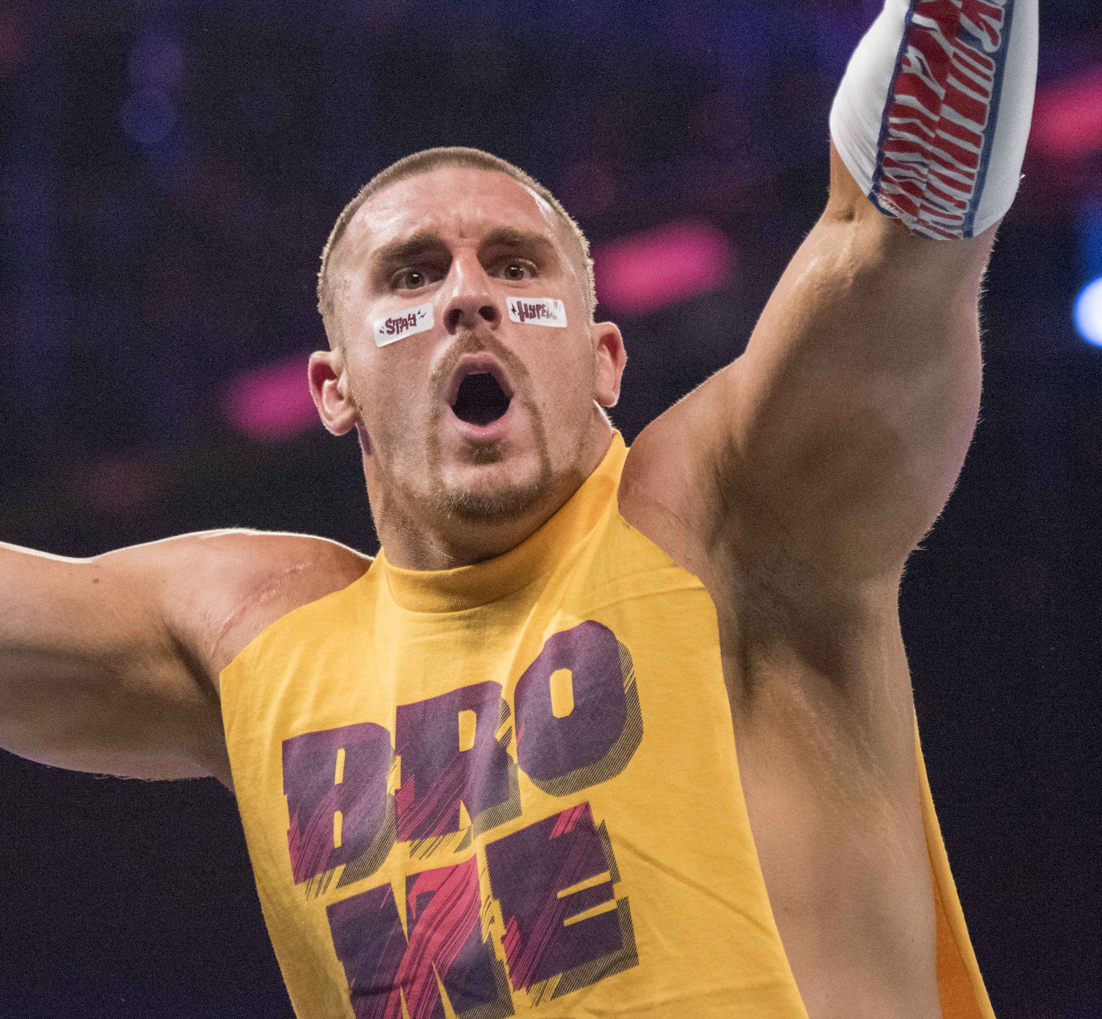 Mojo Rawley during a WWE SmackDown show in December 2016